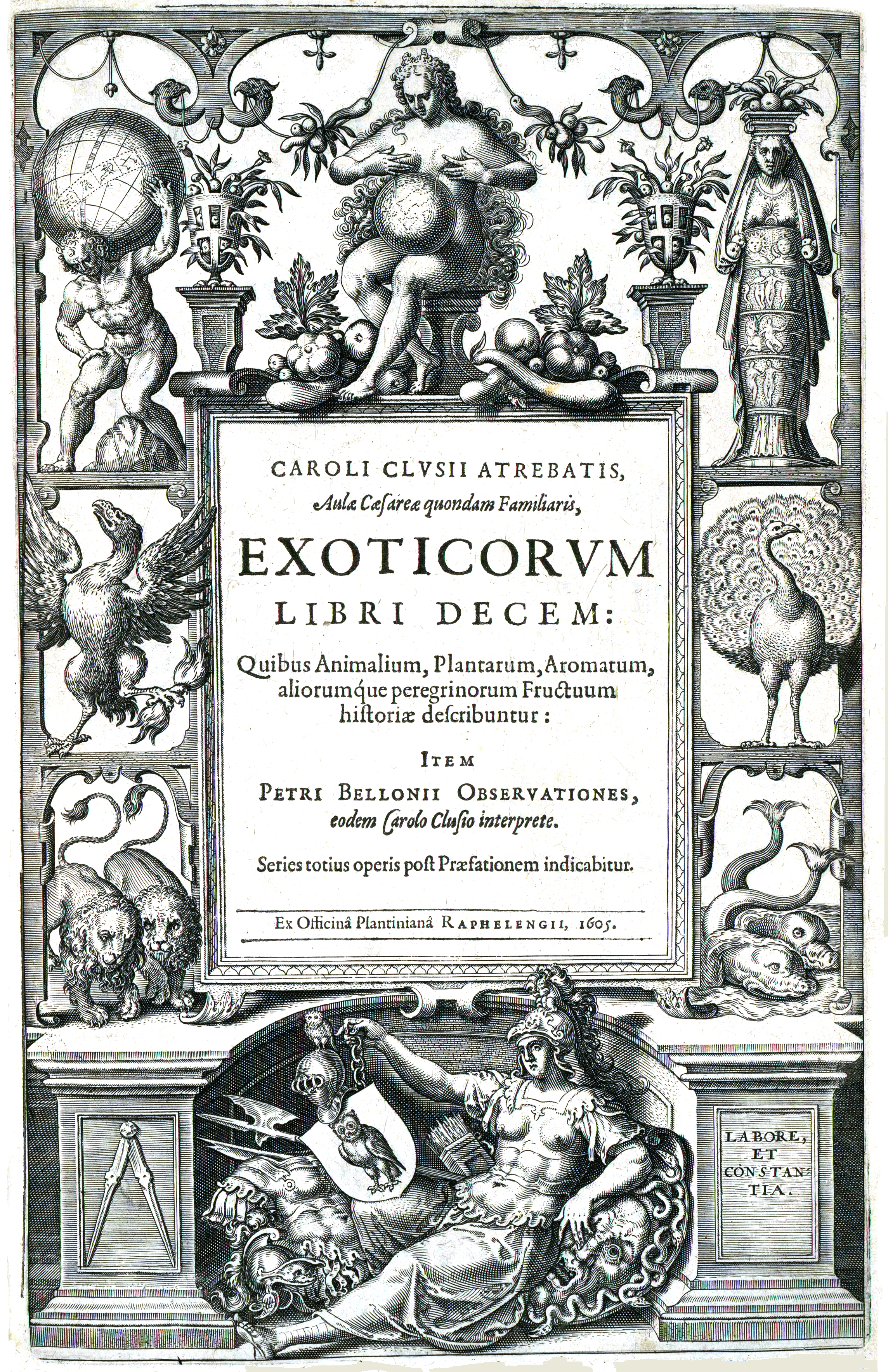 Carolus Clusius, Exoticorum libri decem: quibus animalium, plantarum, aromatum, aliorumque peregrinorum fructuum historiae describuntur: Item Petri Bellonis observationibus [...] (Leiden: Raphelengius, 1605). [Bibliotheca Thysiana, shelf-mark 2202].